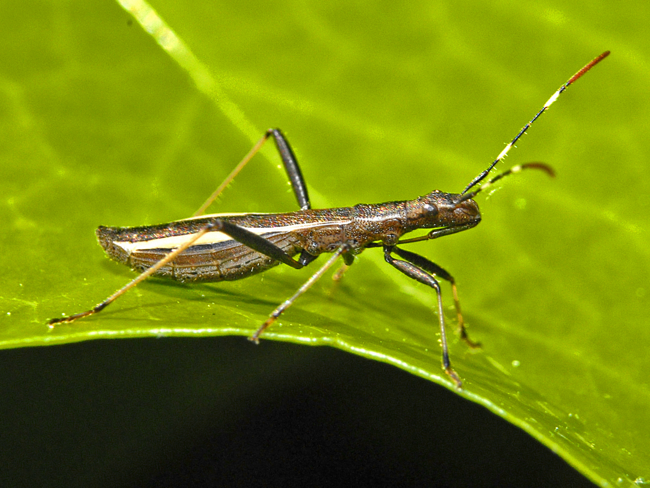 Micrelytra fossularum. Genova, Italy